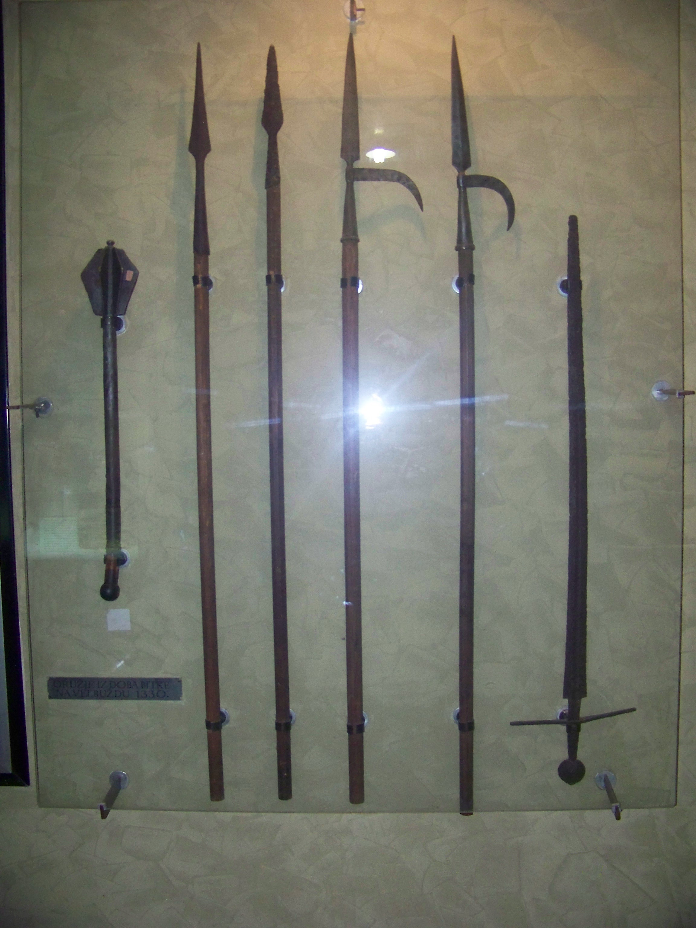 Weapons around the time of battle of Velbužd